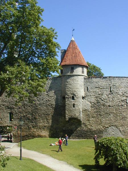 Stable Tower (Tallitorn) inside the city walls of Tallinn, Estonia.